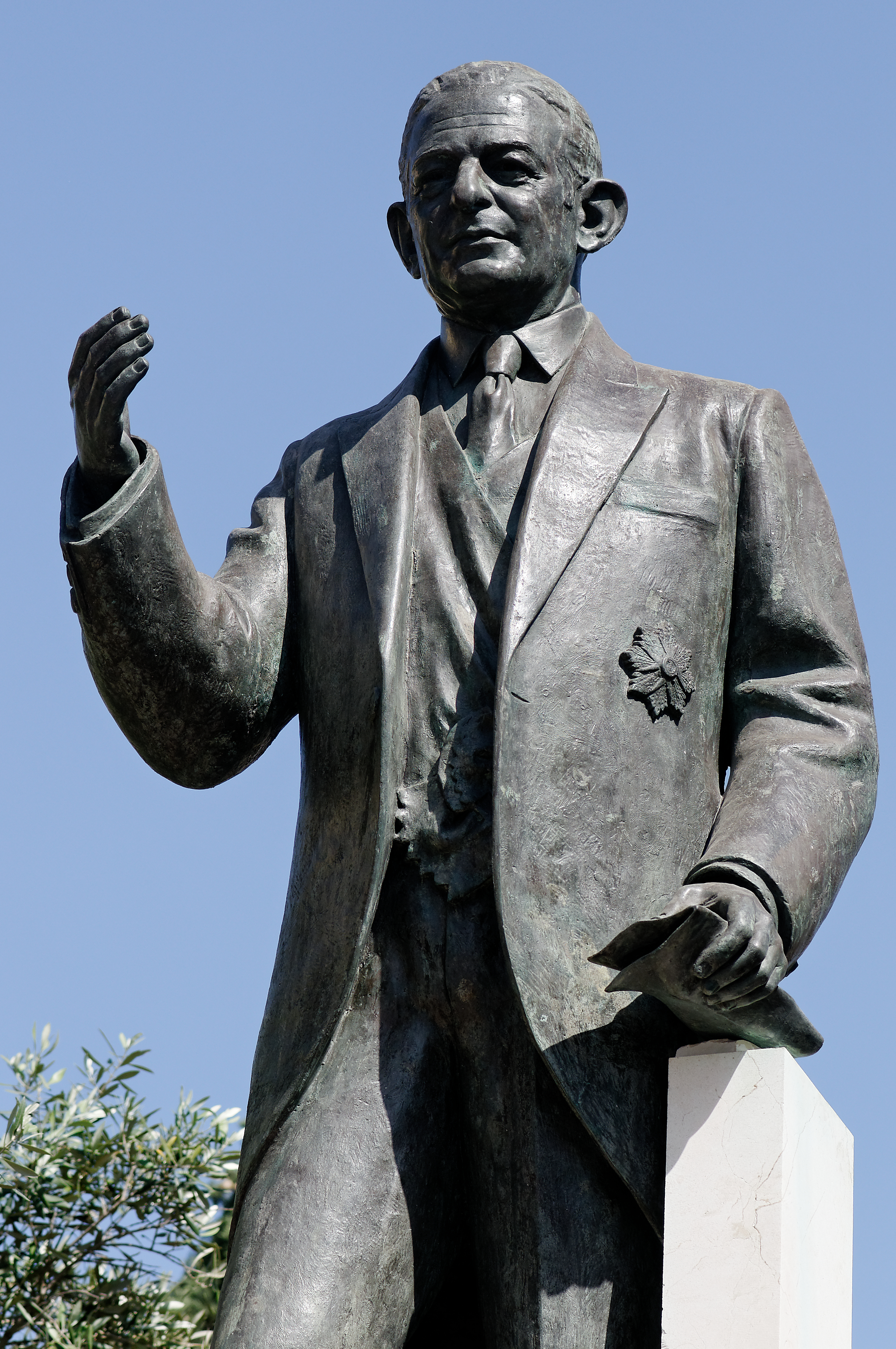 Statue of Giorgio Borg Olivier (1990) by Vincent Apap (1909–2003). Castille Square, Valletta.